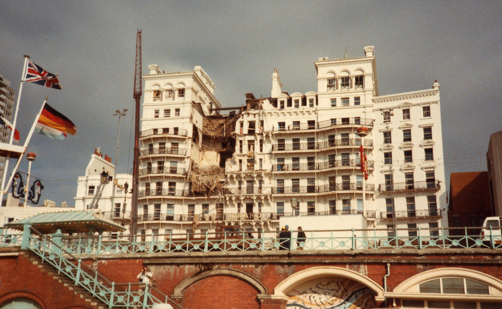 The Grand Hotel in Brighton following the IRA bomb attack. The photo was taken on the morning of October 12 1984, some hours after the blast.